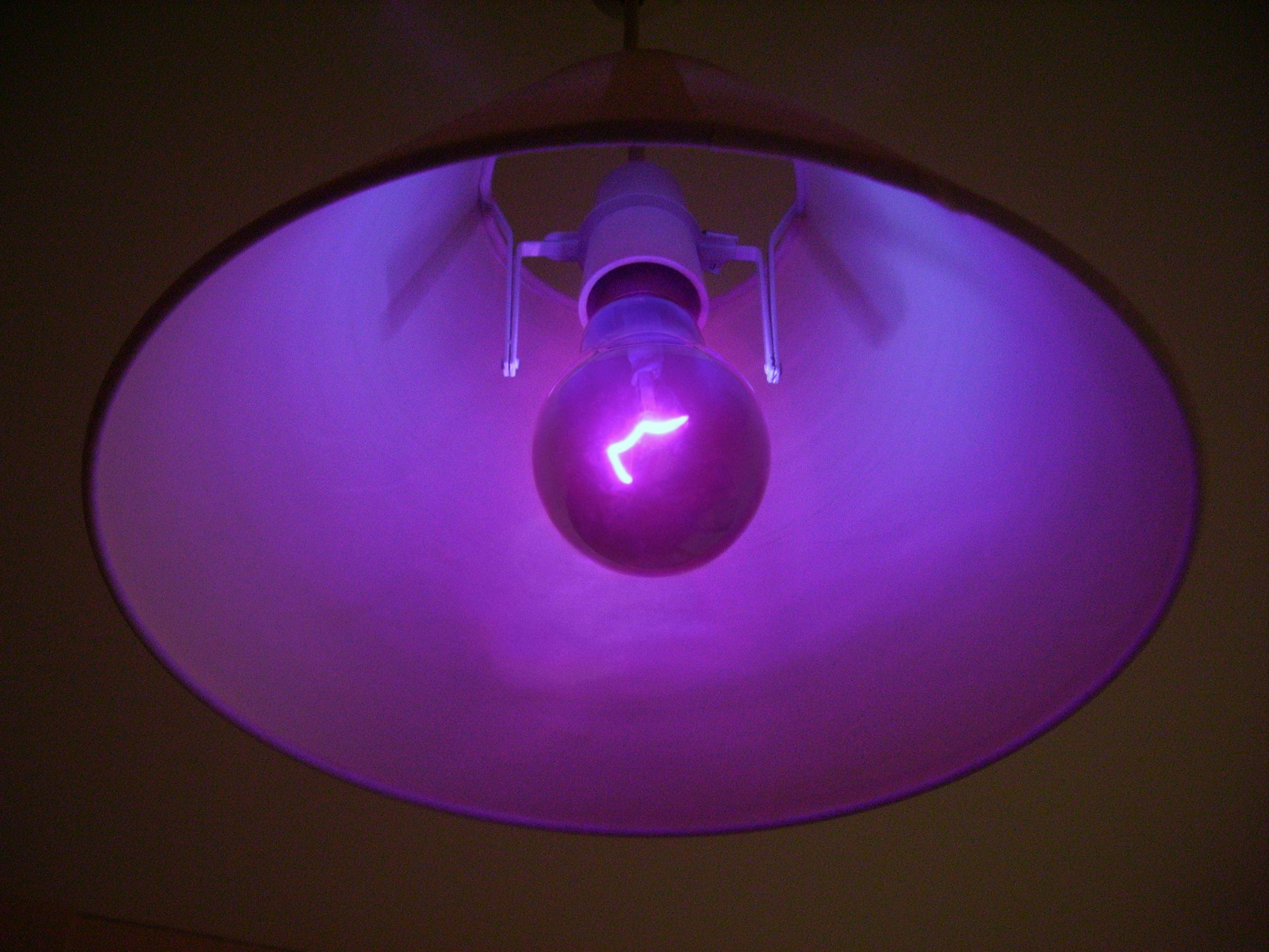 A 100 watt "black light" ultraviolet light bulb. This is a standard incandescent bulb with a coating on the glass which selectively absorbs visible light and passes ultraviolet. Since only a tiny fraction of the light emitted by the filament is ultraviolet, most of the light is absorbed by the coating, so the bulb gets very hot, and has a short lifetime.